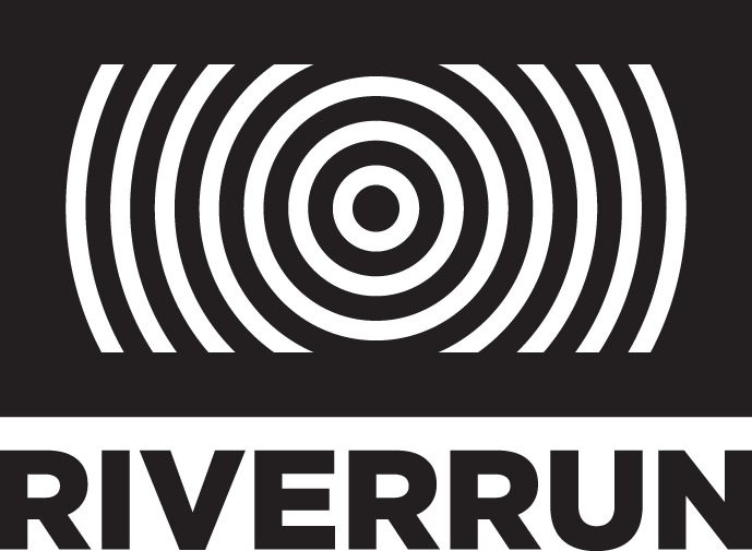 RiverRun official logo created by Elephant in the Room